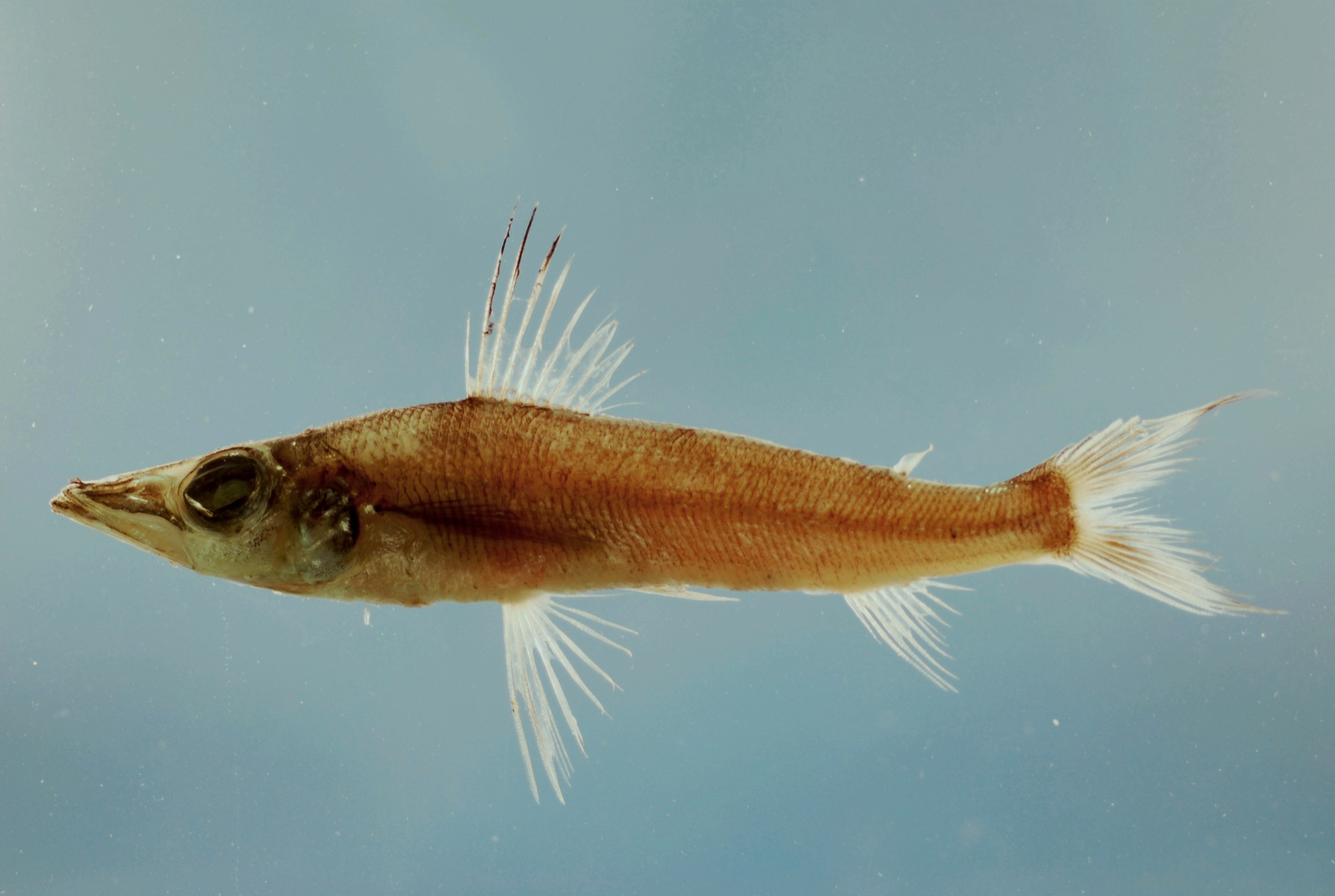 Parasudis truculenta from the Gulf of Mexico